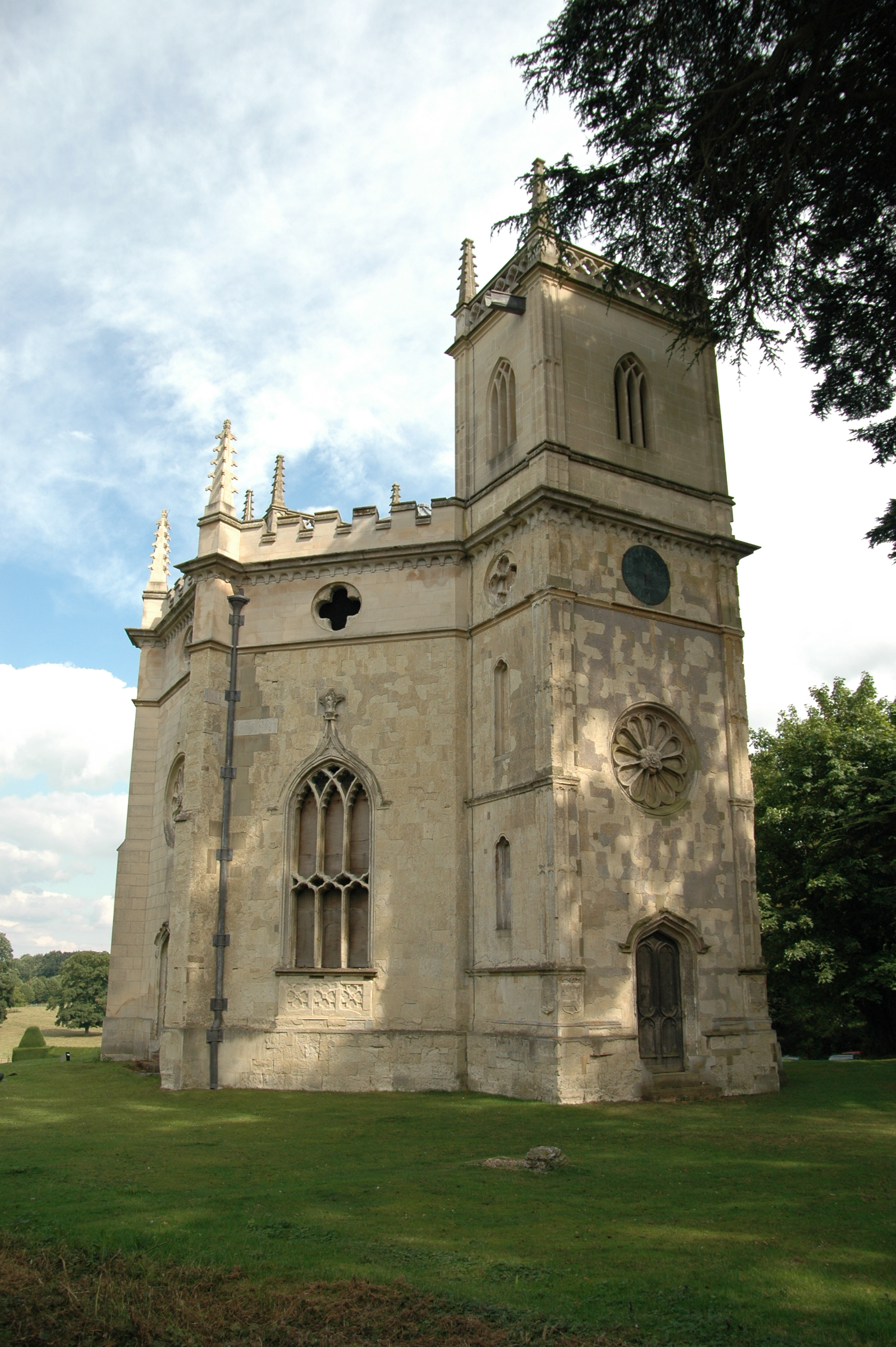 St Mary the Virgin parish church, Hartwell, Buckinghamshire Photo taken by rbirkby on 5 August 2005